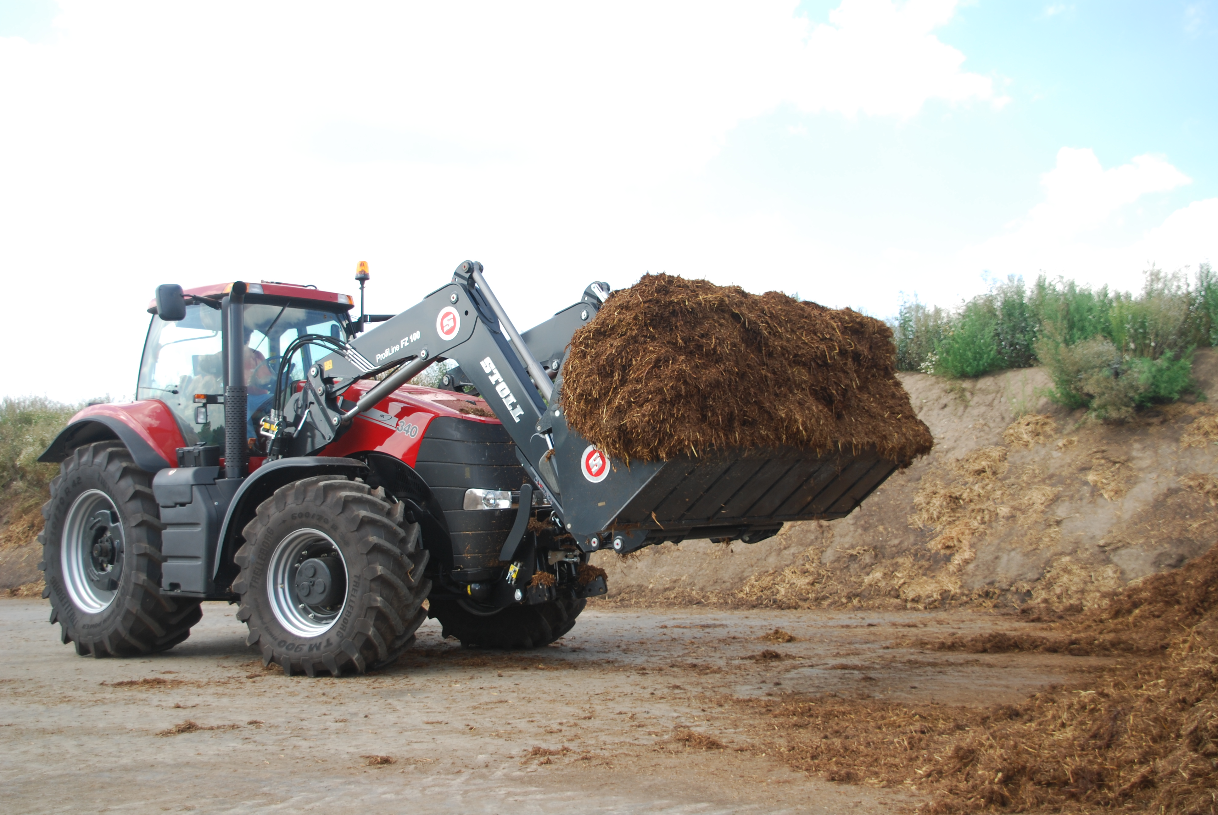 Case IH Magnum 340 with Stoll ProfiLine FZ 100 frontloader